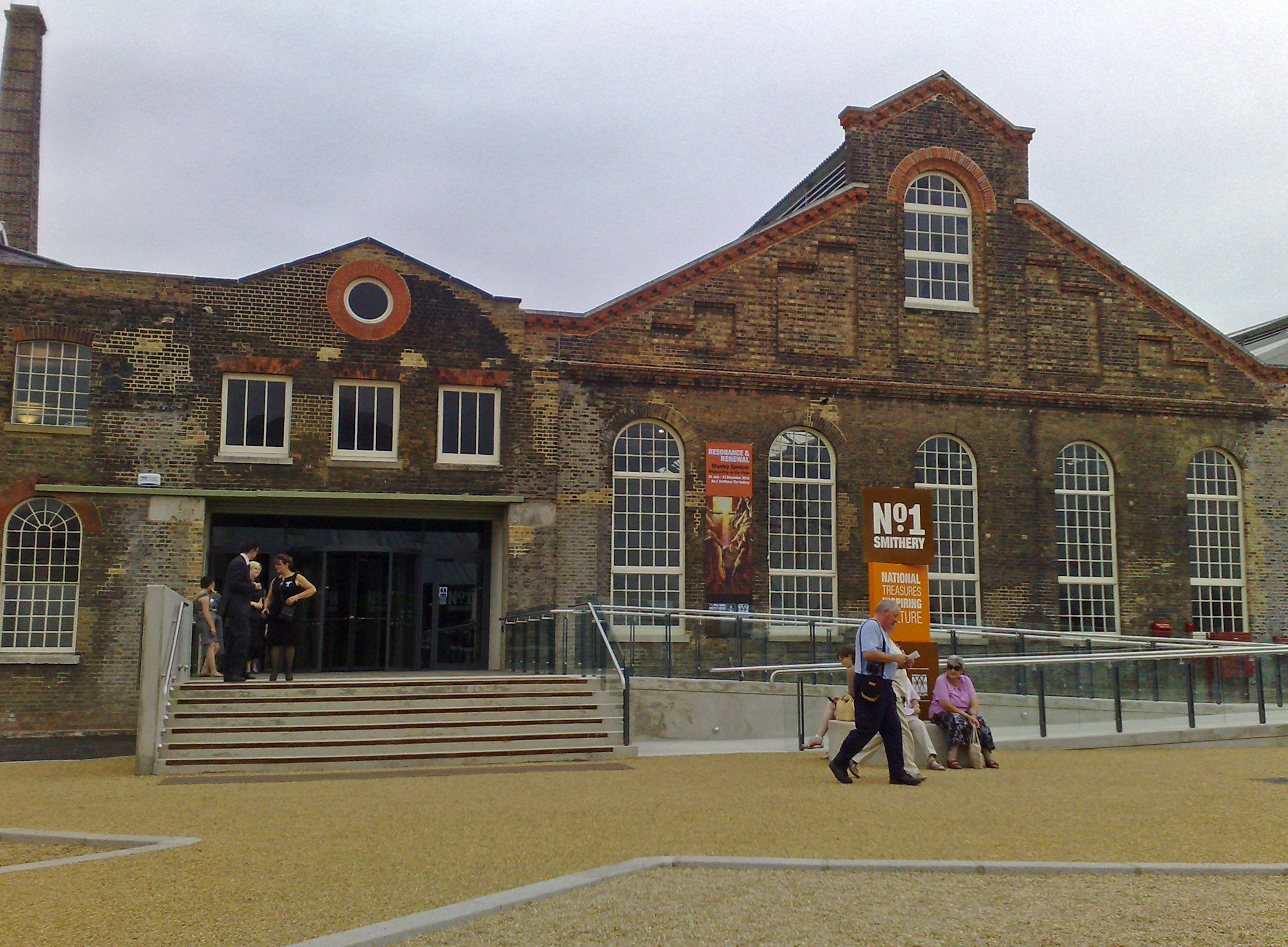 Entrance to the No.1 Smithery at Chatham Dockyard showing landscaping and accessible facilities. Opened in 2010 and designed by van Heyningen and Haward Architects.